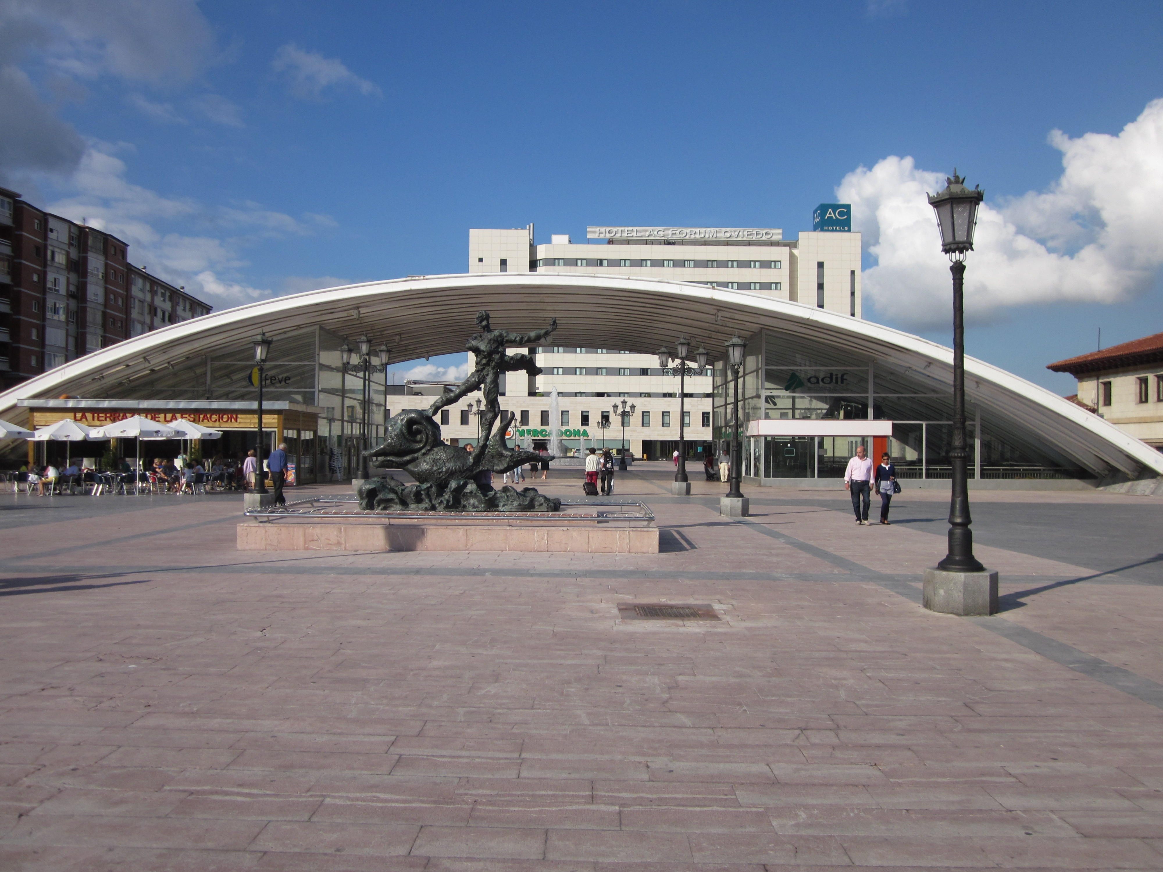 Railway Station of Oviedo. Upper entrance at the Avenida de la Fundación Príncipe de Asturias. Principality of Asturias. Spain